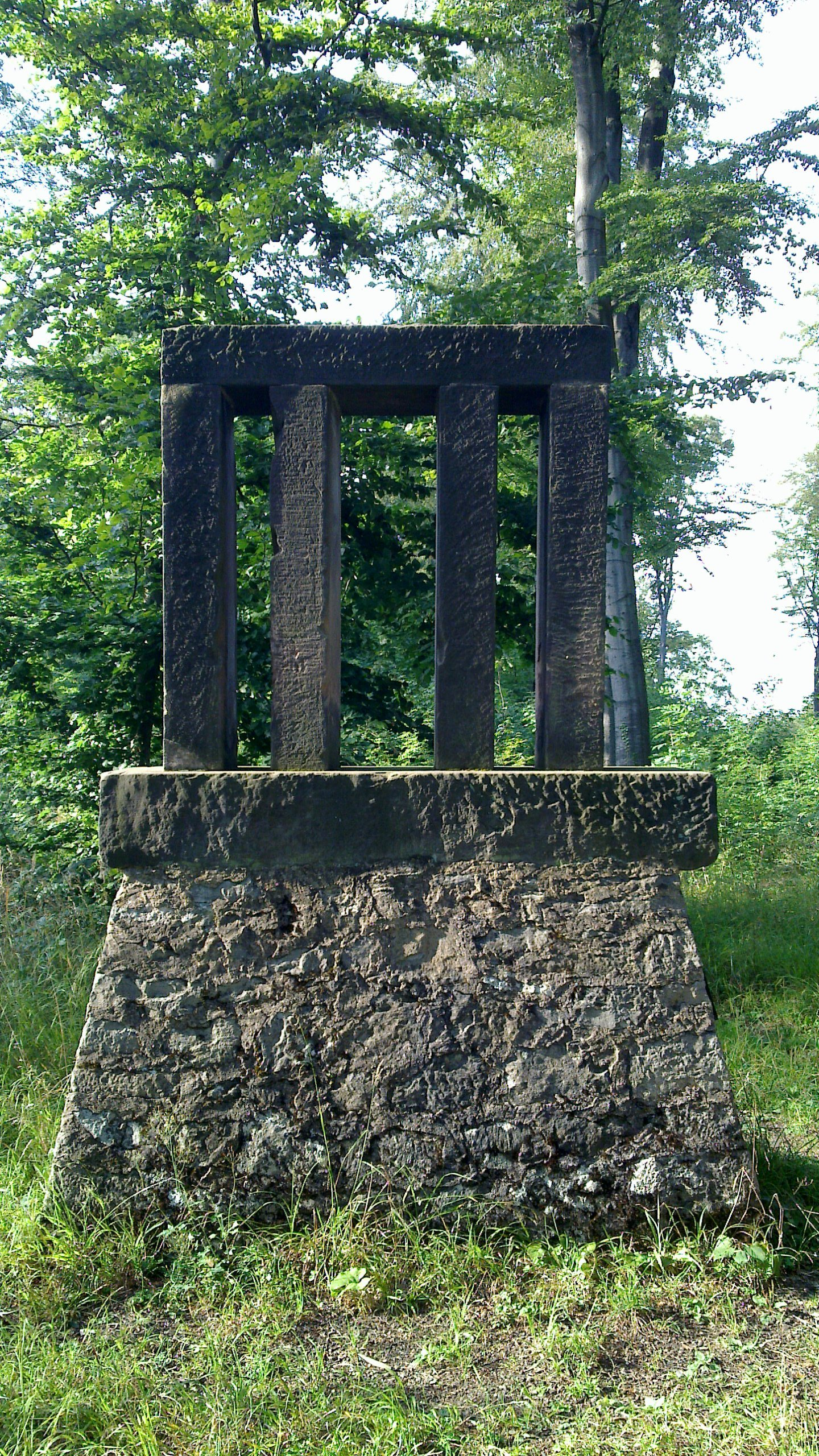 Meridian reference point 12 km south of the Göttingen Observatory (Sternwarte Göttingen).